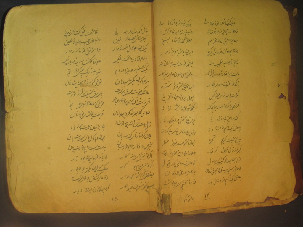 This is a manuscript of Kurdish Shahname (Collected by legacy committee of Vejin) وێنەی دەستنووسێکی شانامەی کوردی، ئەرشیڤی کۆمیتەی کەلەپووری ناوەندی فەرھەنگی ھونەریی ڤەژین